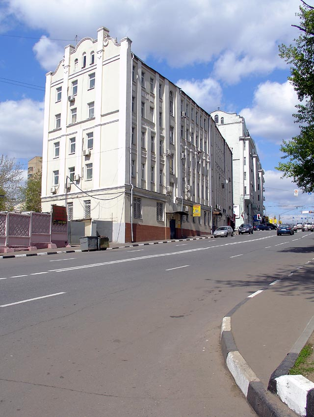 Moscow, Narodnaya Street, 1900s housing. Prior to construction of new Krasnokholmsky Bridge (1930s), it was part of the Garden Ring; since 1938, the Ring passes on the left of these buildings.